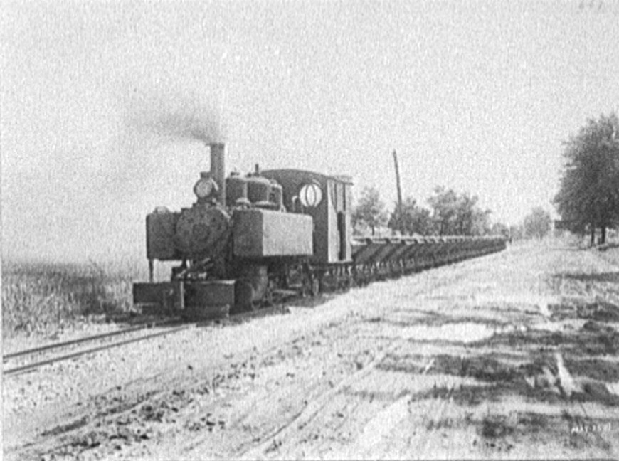 Narrow gauge construction train in Michigan.